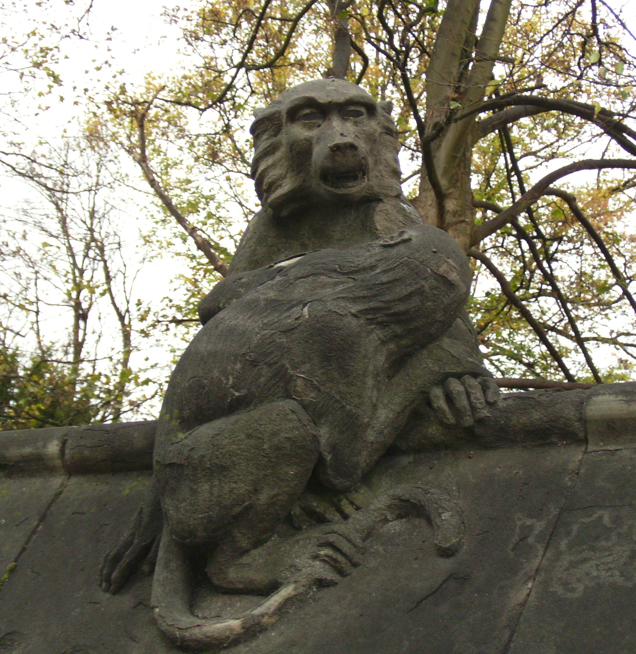 Animal Wall, Cardiff, Wales, UK